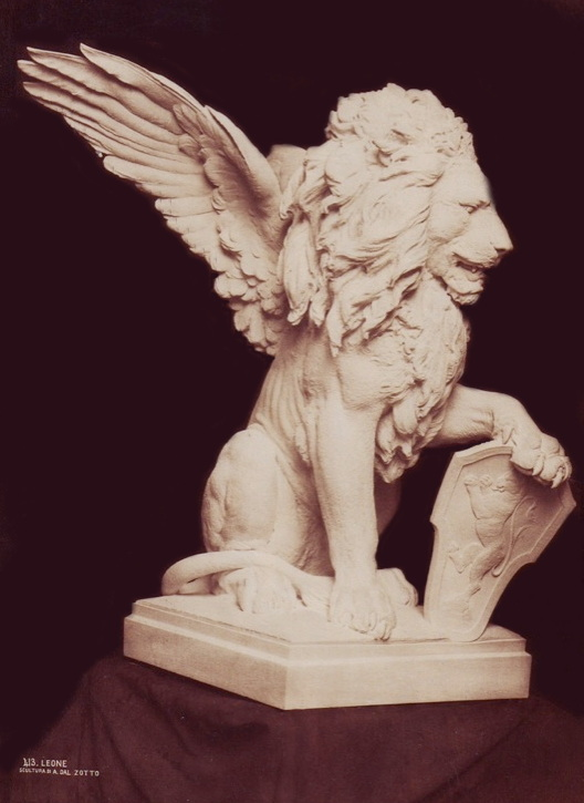 Carlo Naya (1822-1881) - "A lion. Sculpture by A. Dal Zotto". Catalogue number 413.